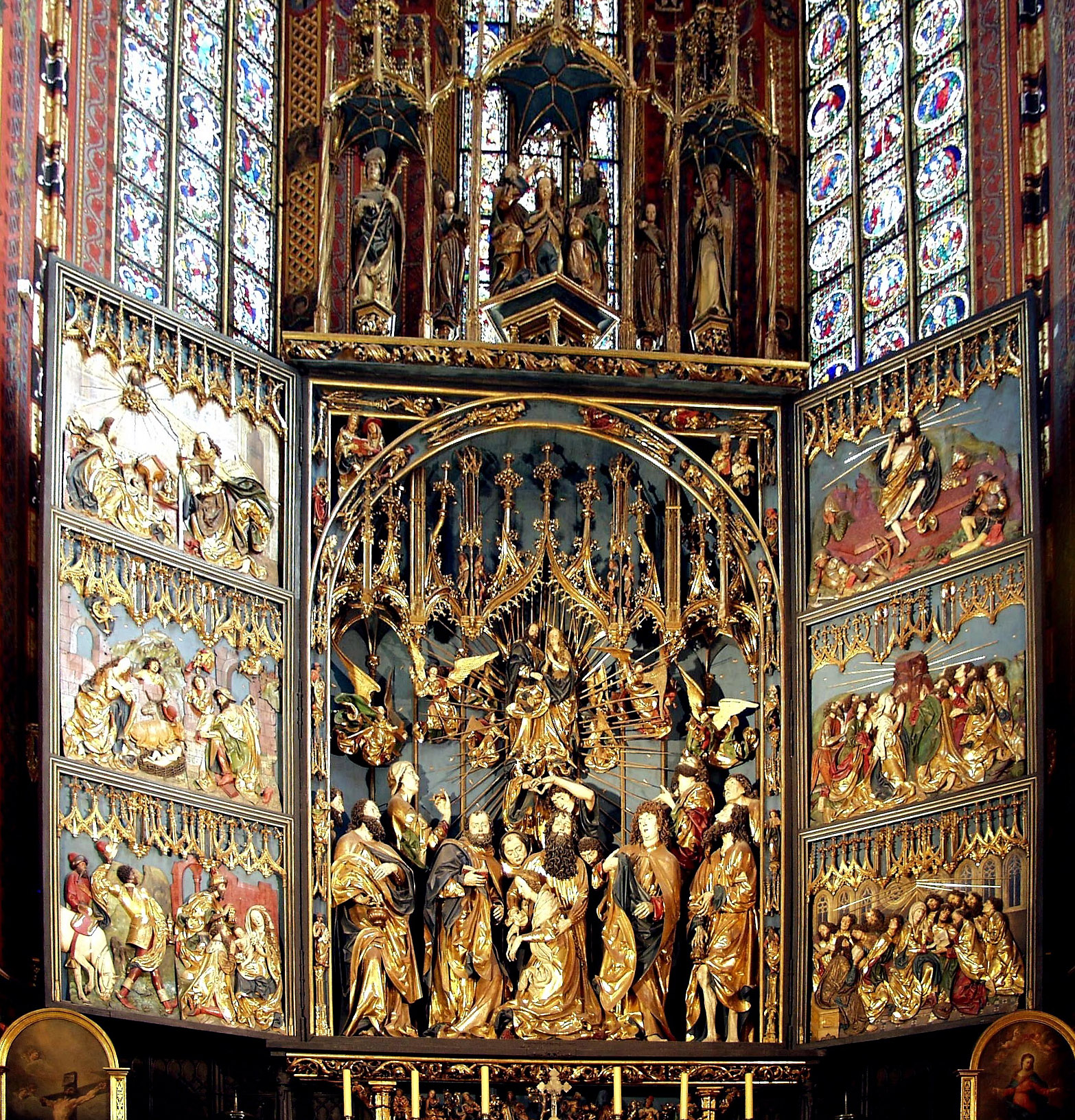 Altar of Veit Stoss, St. Mary's Church, Krakow, Poland